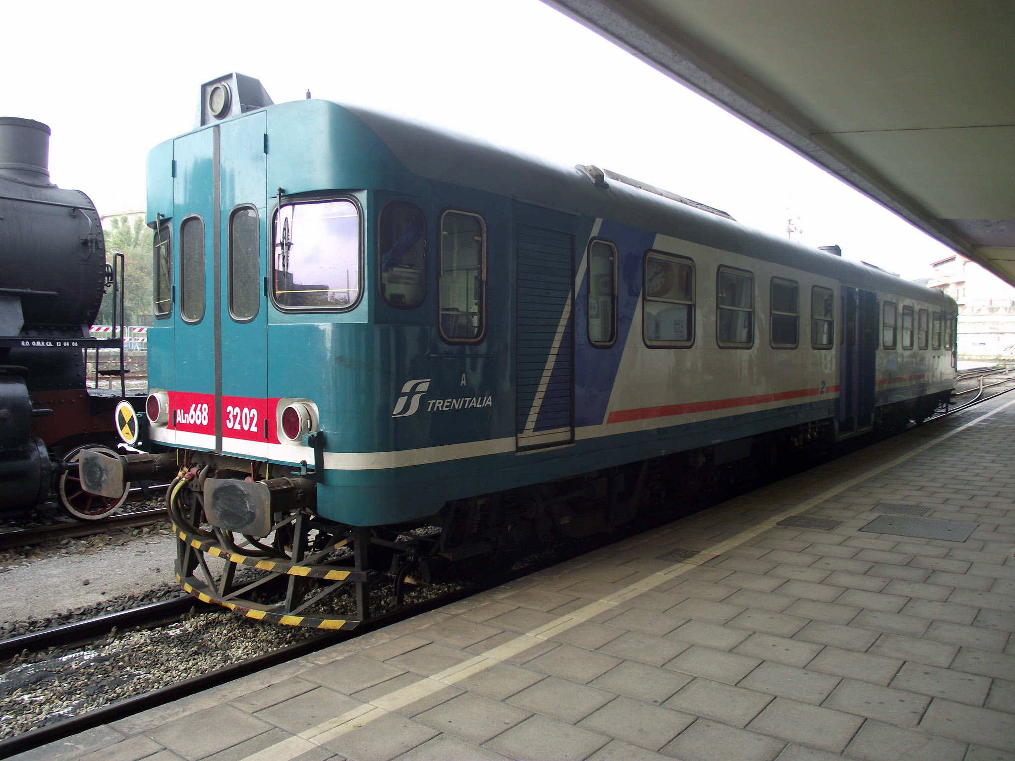 Trenitalia railcar ALn 668 3202 inside the Iglesias station, Sardinia, Italy